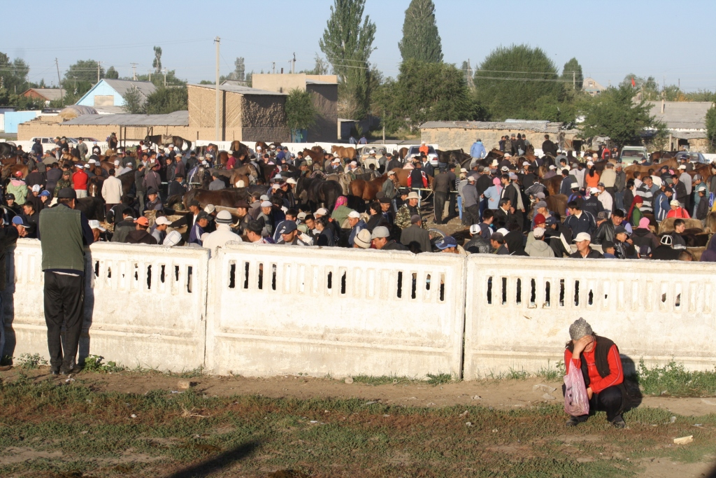 Cattle Bazaar in Karakol, Kyrgyzstan